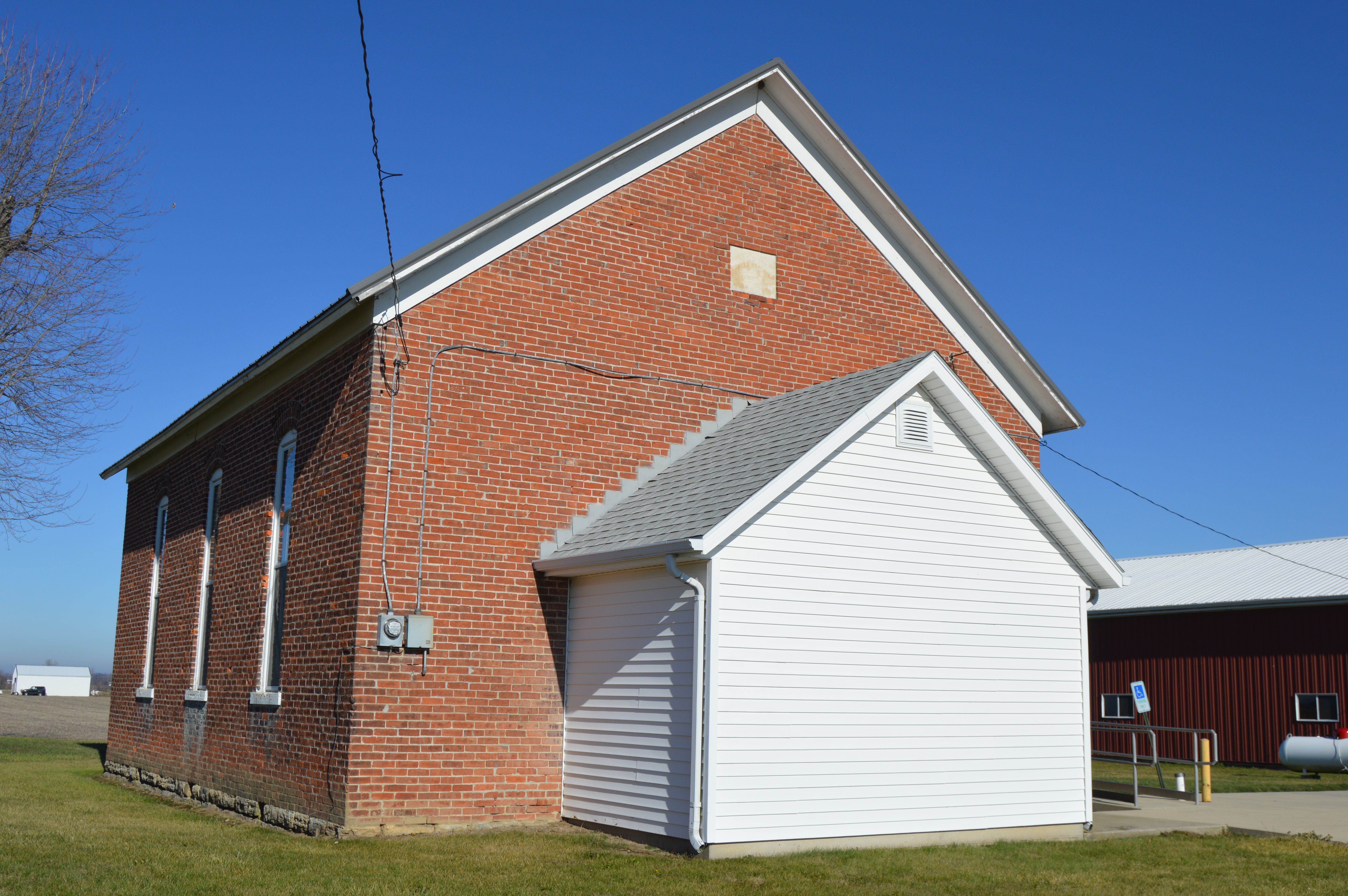 Front and western side of the former Center District #5 School (now the Black Creek Township hall), located on the northeastern corner of Manley and Wabash Roads west of Rockford in Mercer County, Ohio, United States. It was built in 1894.